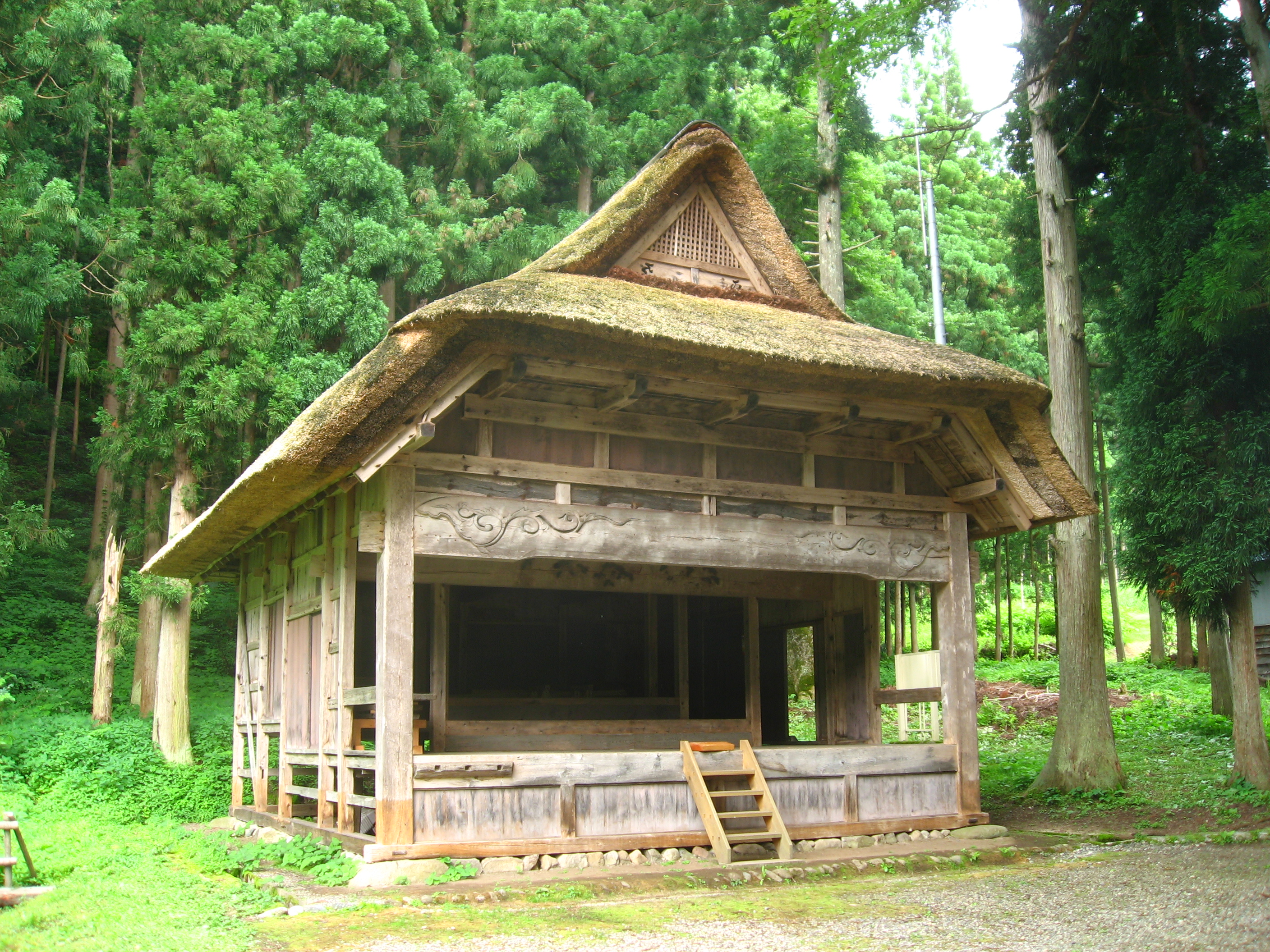 Farm village Kabuki stage "Omomo-no Butai",Minamiaizu-machi,Fukushima pref.,Japan